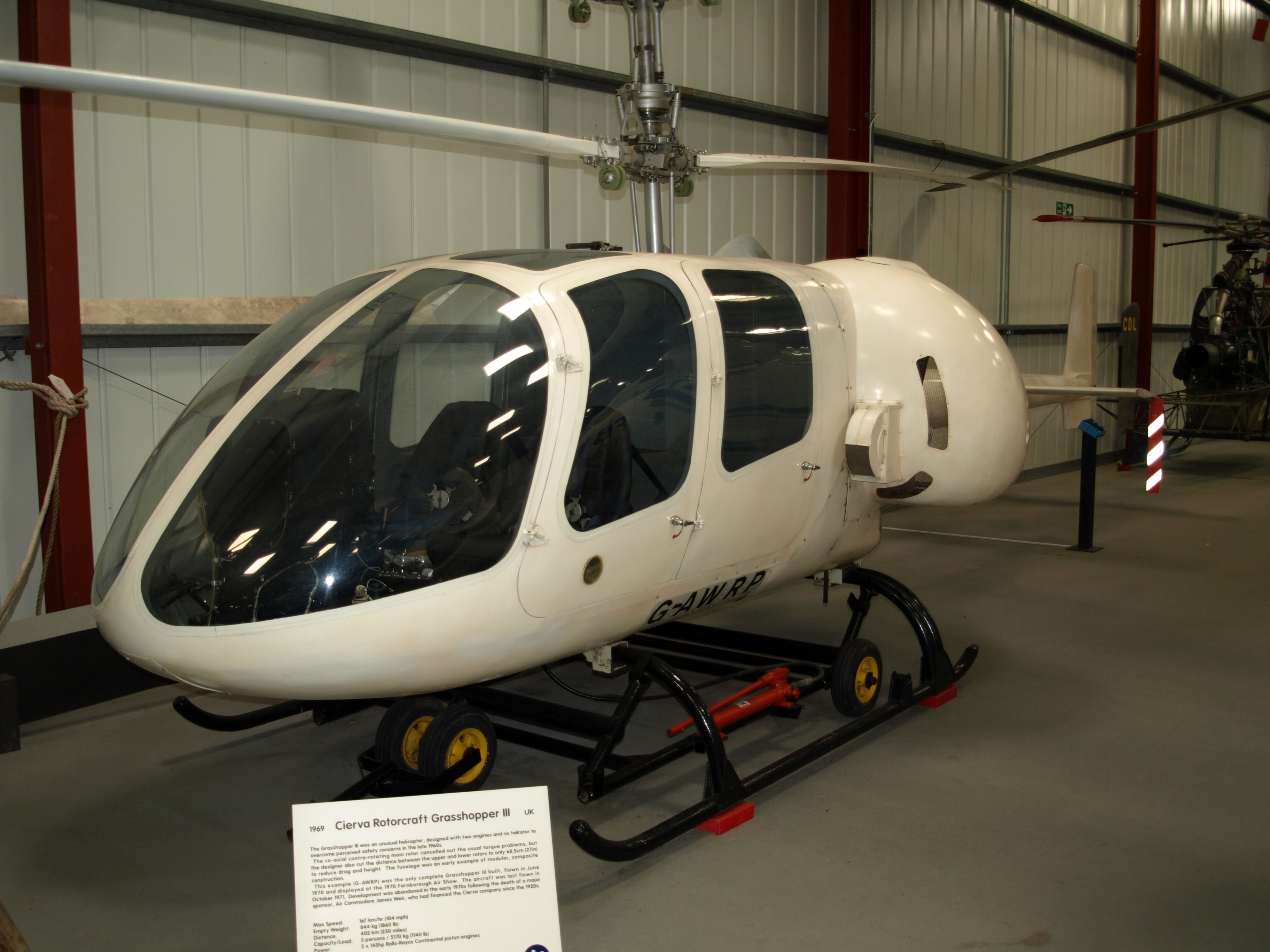 Cierva Grasshopper III at the Helicopter Museum, Weston-super-Mare.